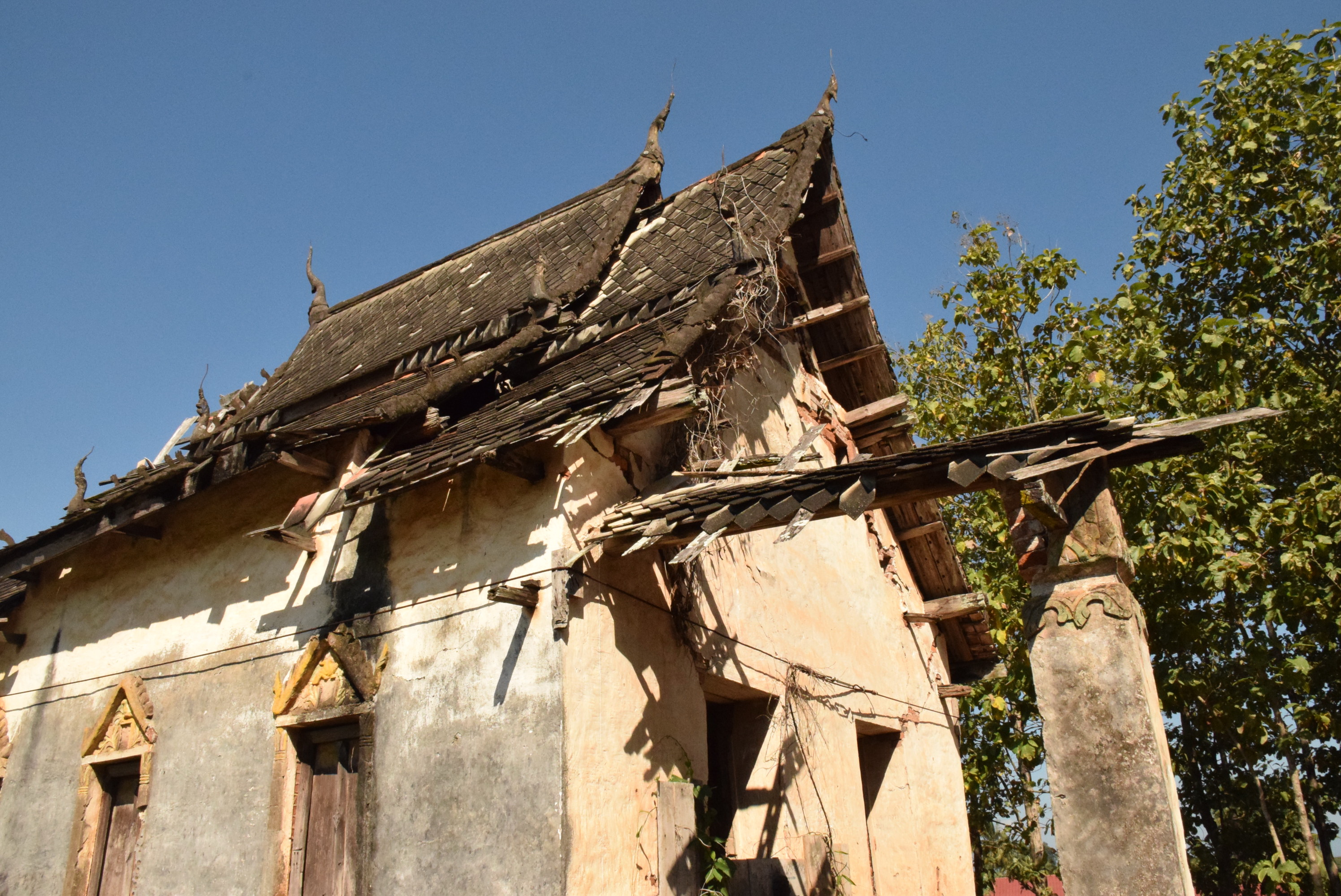 Wat Doi Kaew Uttaradit โบราณสถานวัดดอยแก้ว ต.แสนตอ อ.เมือง จ.อุตรดิตถ์ ถ่าย พ.ย. 2558